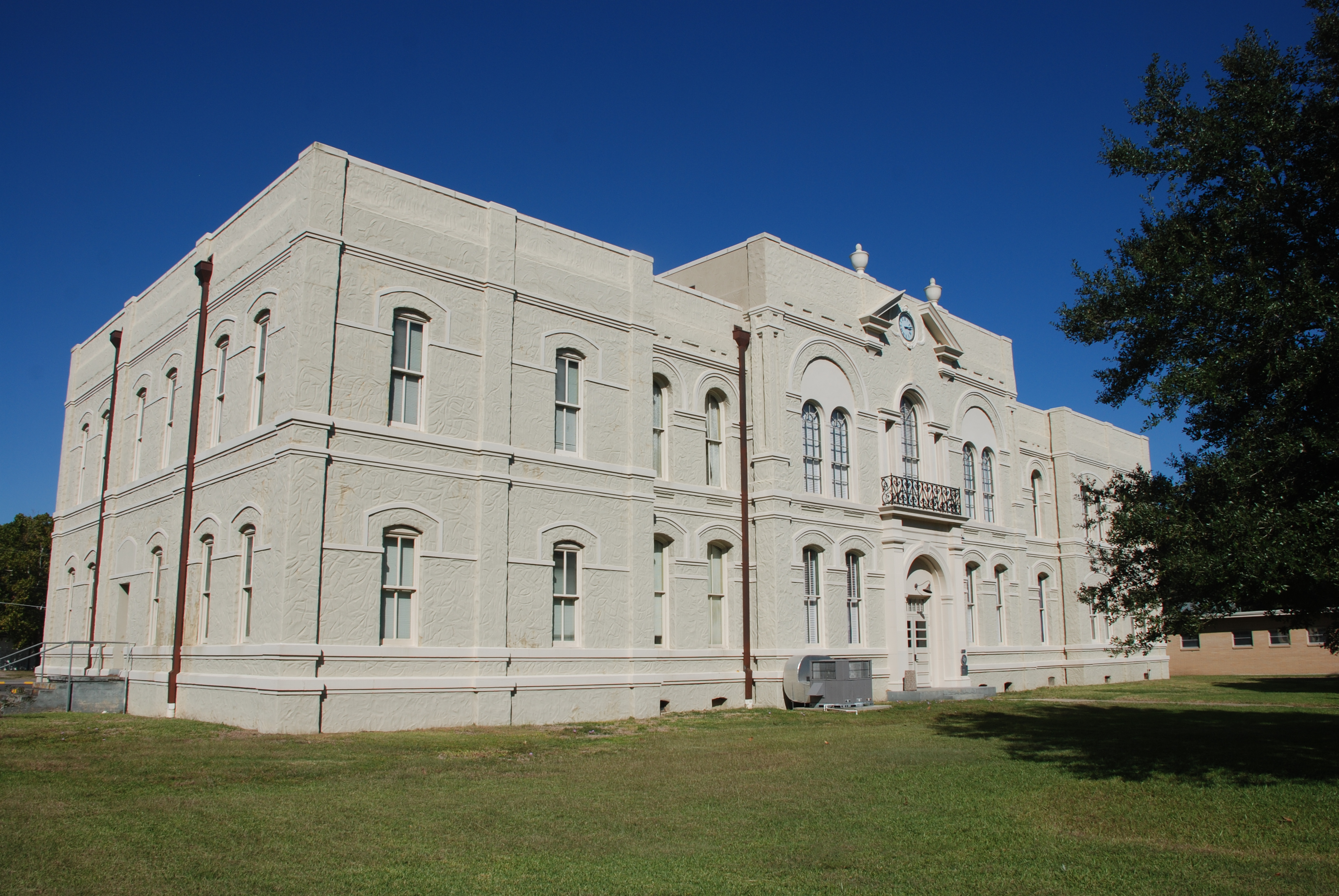 The old Brazoria County Courthouse in Angleton, Texas, USA was built in 1897. It was extensively remodeled in 1927. The building was listed on the National Register of Historic Places on March 12, 1979 and designated a Recorded Texas Historic Landmark in 1983.